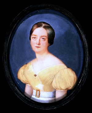 A portrait of Mrs. Andry by Louis Antoine Collas